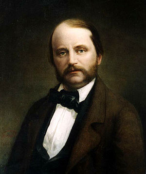 Goncharov_Ivan_Aleksandrovich